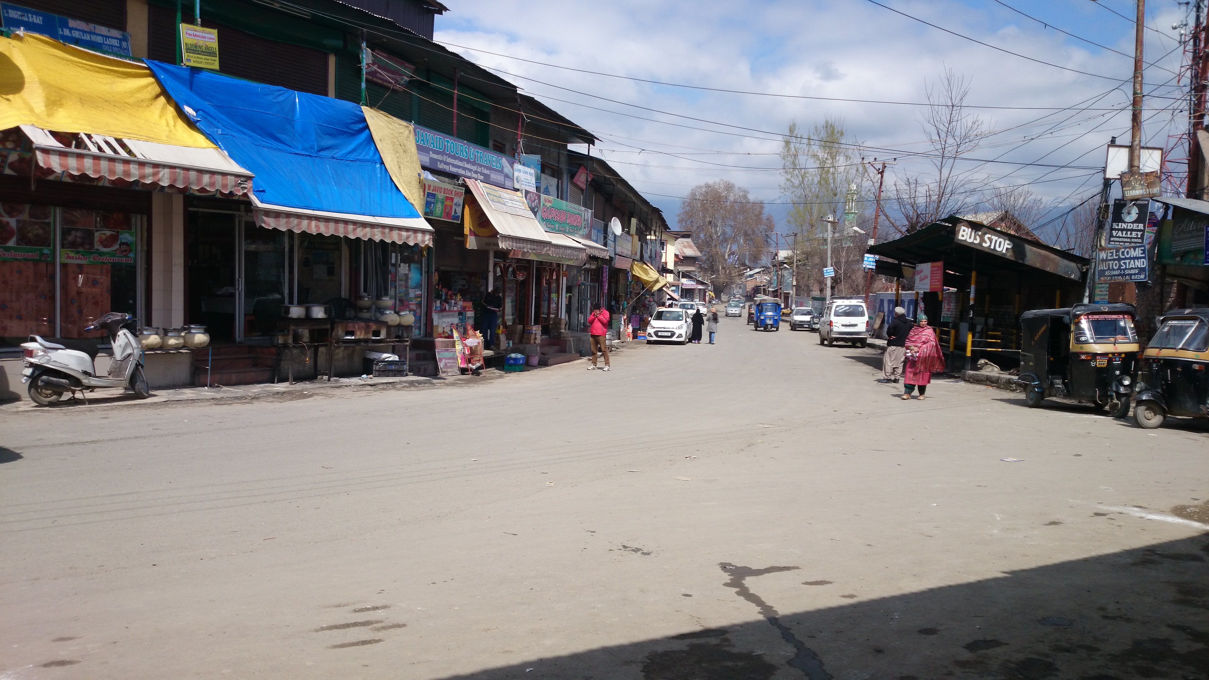 Molvi Stop Lal Bazar